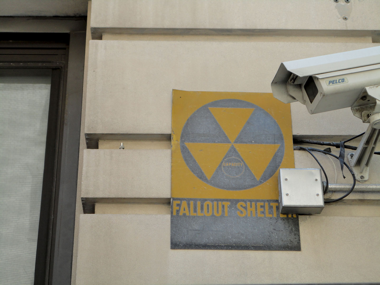 Fallout shelter sign on a building in New York City upper east side.